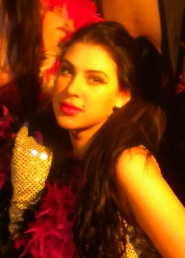 Cabaret portrait of YaiyaPlace: Bondegatan 1, Stockholm, Sweden